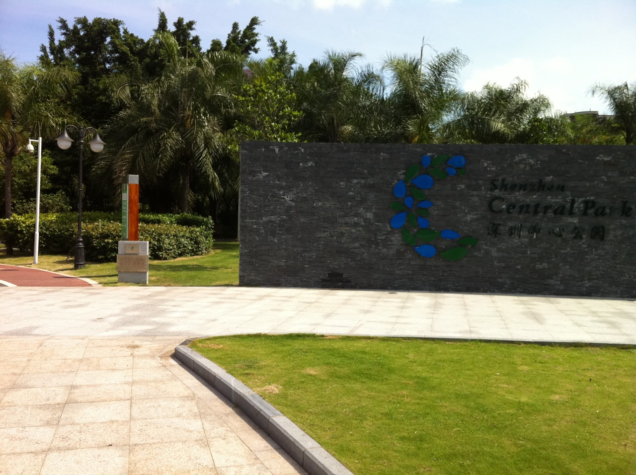 Shenzhen Central Park Main Gate